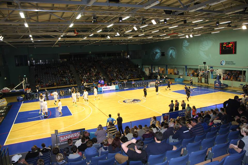 The interior of the University of Worcester Arena, during a basketball match